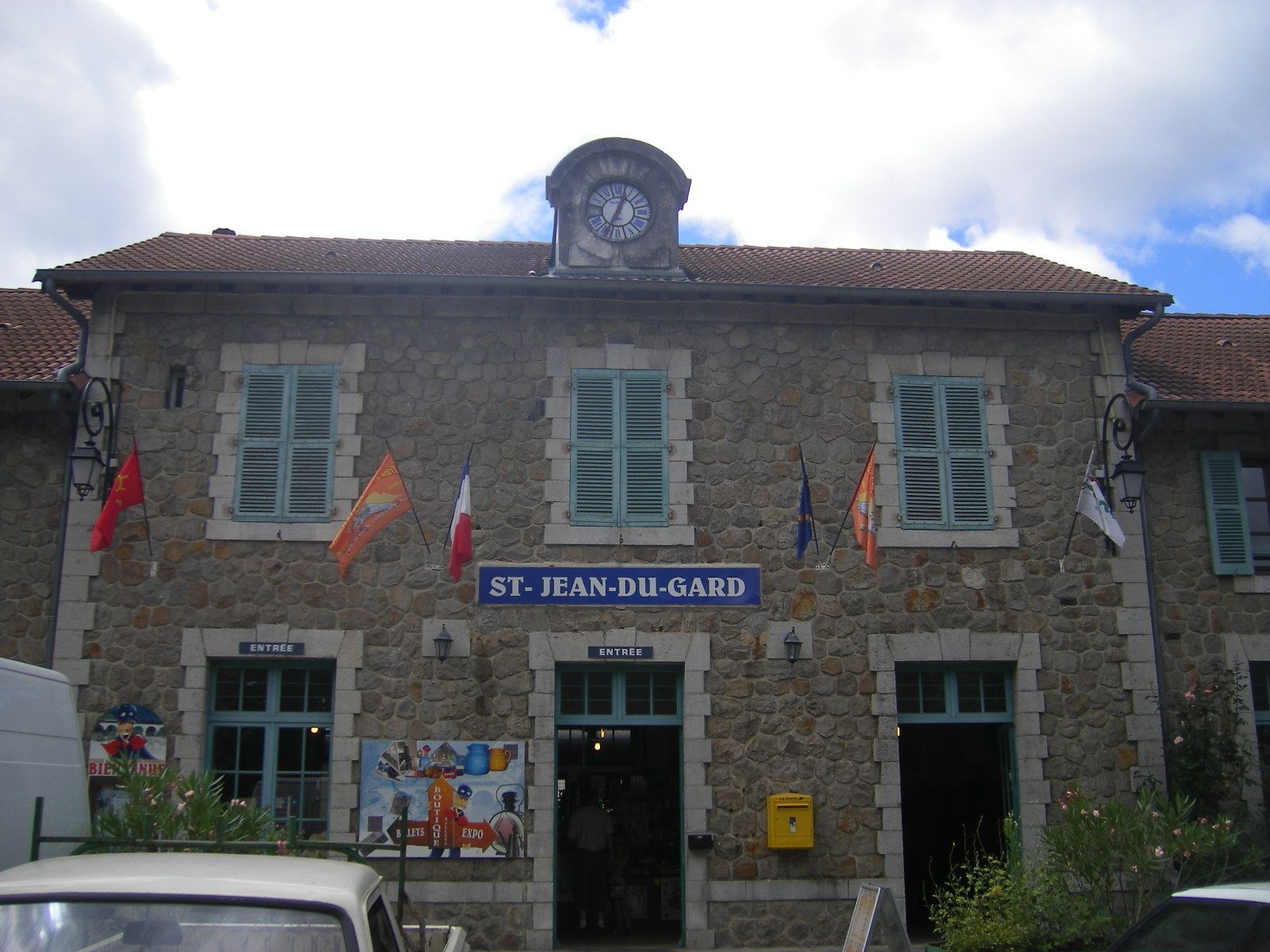 Saint-Jean-du-Gard - railway station